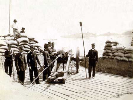 A cannon and Brazilian troops in Rio de Janeiro in 1894. Photo taken by Juan Gutierrez during the blockade of the city by rebel warships.